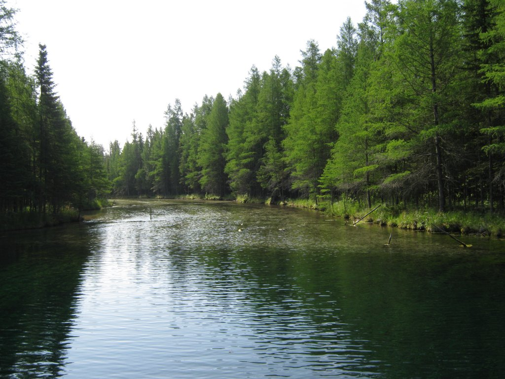 View at Kitch-iti-kipi Spring